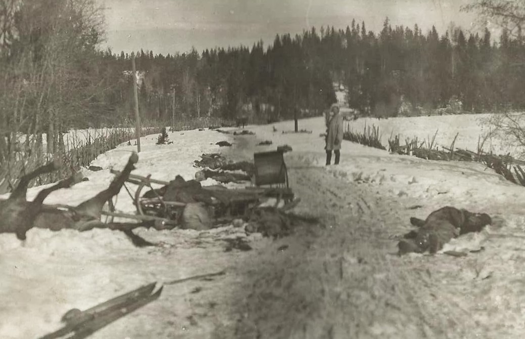 1918 Finnish Civil War: Remains of the Red Guards convoy in the "Death Valley" after the Battle of Rautu, 5 April 1918.